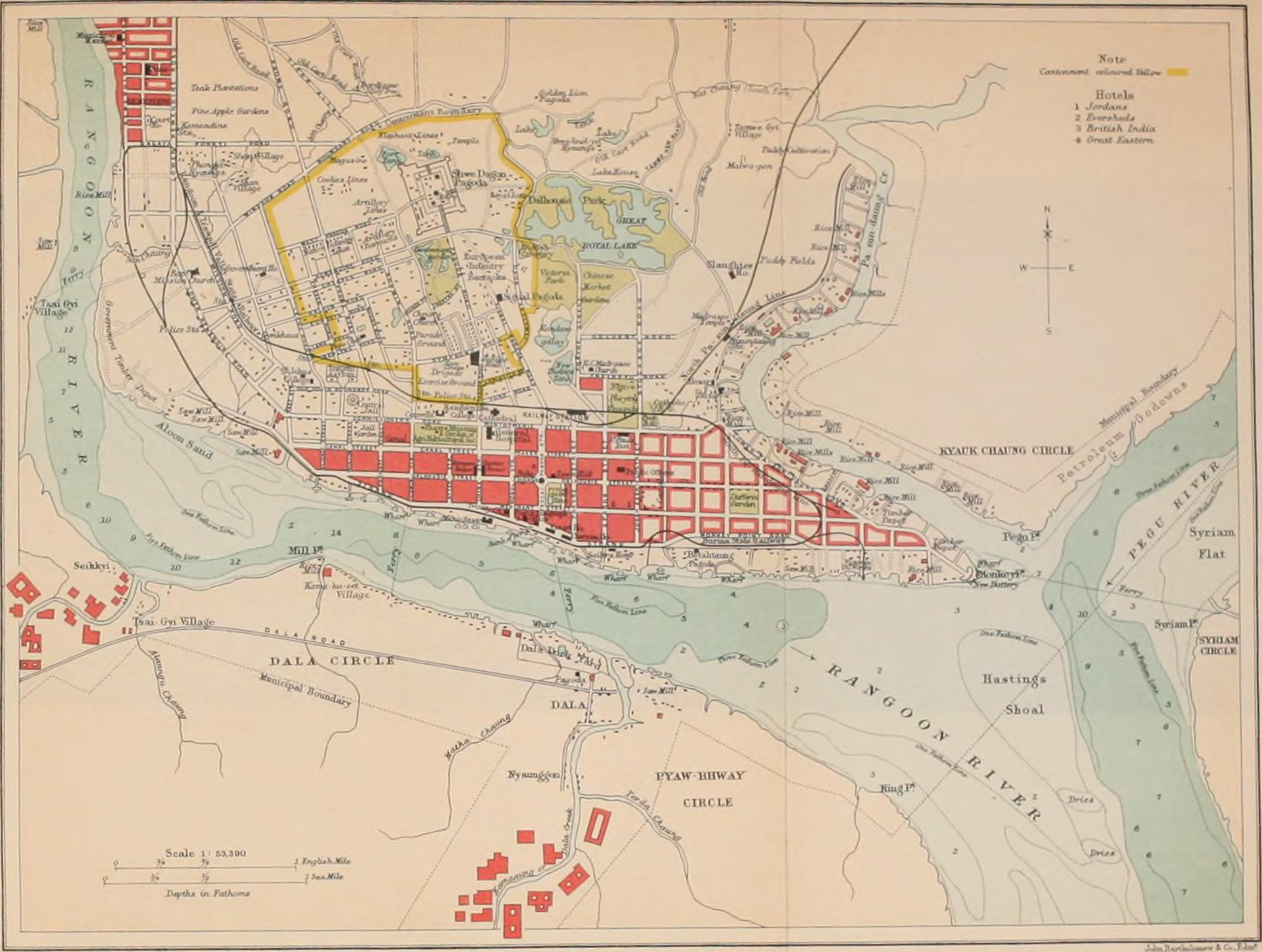 Identifier: handbooktravelle00john Title: A handbook for travellers in India, Burma, and Ceylon . Year: 1911 (1910s) Authors: John Murray (Firm) Subjects: India -- Guidebooks Burma -- Guidebooks Sri Lanka -- Guidebooks Publisher: London : J. Murray Calcutta : Thacker, Spink, & Co. Text Appearing Before Image: JtimJisrihoXaiaffv St Co.,£,00?: RANGOON AND ENVIRONS Text Appearing After Image: Lontloii John MnrrsTi Altonmrlr Sti»et RANGOON. 451 remembrance of her love, lionsfigures are placed at the foot of allpagoda steps, and round the buildingitself. The four chapels at the foot of thepagoda are adorned by colossal figuresof the sitting Buddha, and in thefarthest recess, in a niche of its own,is a still more TOodlv figure, thethick gilding darkened in manyplaces by the fumes of thousands ofburning tapers and candles. Hun-dreds of Gautamas, large and small,sitting, standing, and reclining, whiteand black, of alabaster, sun-driedclay, or wood, surround and arepropped up on the larger images.High stone altars for the offering ofrice and flowers stand before thelions, interspersed with niche altarsfor burnt - offerings. On the outeredge of the platform are a host ofsmall pagodas, each with its ii;tazanngs, image - houses overflowingwith the gifts of generations ofpilgrims ; figures of Buddha in singlelow stone chapels ; tall posts (calledtaguttdamg), flaunting from whichare